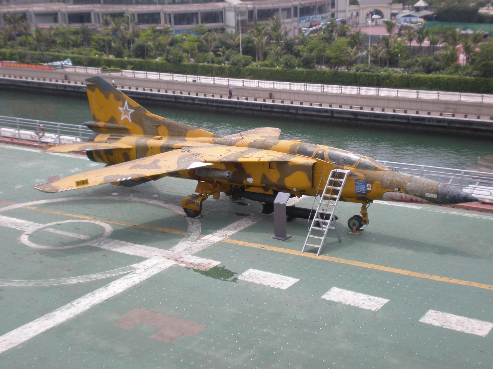 A Mikoyan-Gurevich MiG-23 on display on the flight deck of the aircraft carrier Minsk, located at the Minsk World theme park in Shenzhen, PRC.